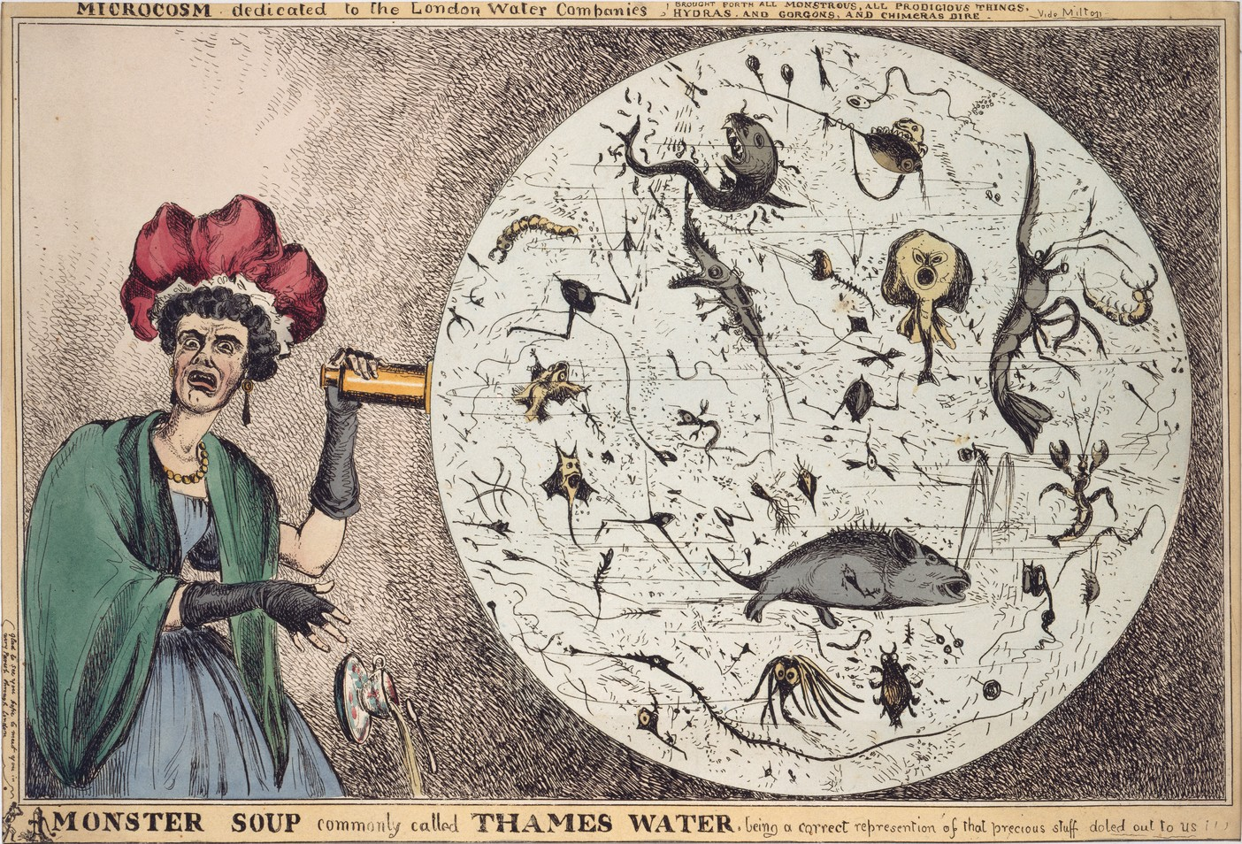 Monster Soup commonly called Thames Water